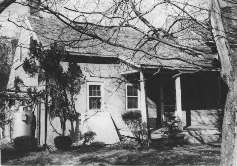 Van Gelder House, Wyckoff, New Jersey. This house has been demolished.